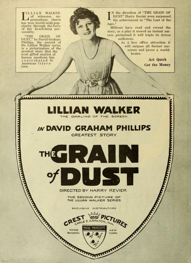 Advertisement in Moving Picture World, Dec 1917 for the American film The Grain of Dust (1918).